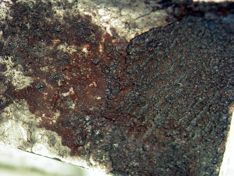 Wüstite, Iron (Variety Kamacite), Goethite (FOV: ~1x0.8 cm) Locality: Sikhote-Alin meteorite, Paseka village, Sikhote-Alin Mts, Primorskiy Kray, Far-Eastern Region, Russia Original description: Black crust of wustite on surface of meteorite particle, formed during its moving through atmosphere. Metallic-white kamacite is matrix. Brown secondary goethite is visible. It formed during contact of the meteorite with a wet ground. FOV is ~1x0.8 cm. Pavel M. Kartashov collection and photo.